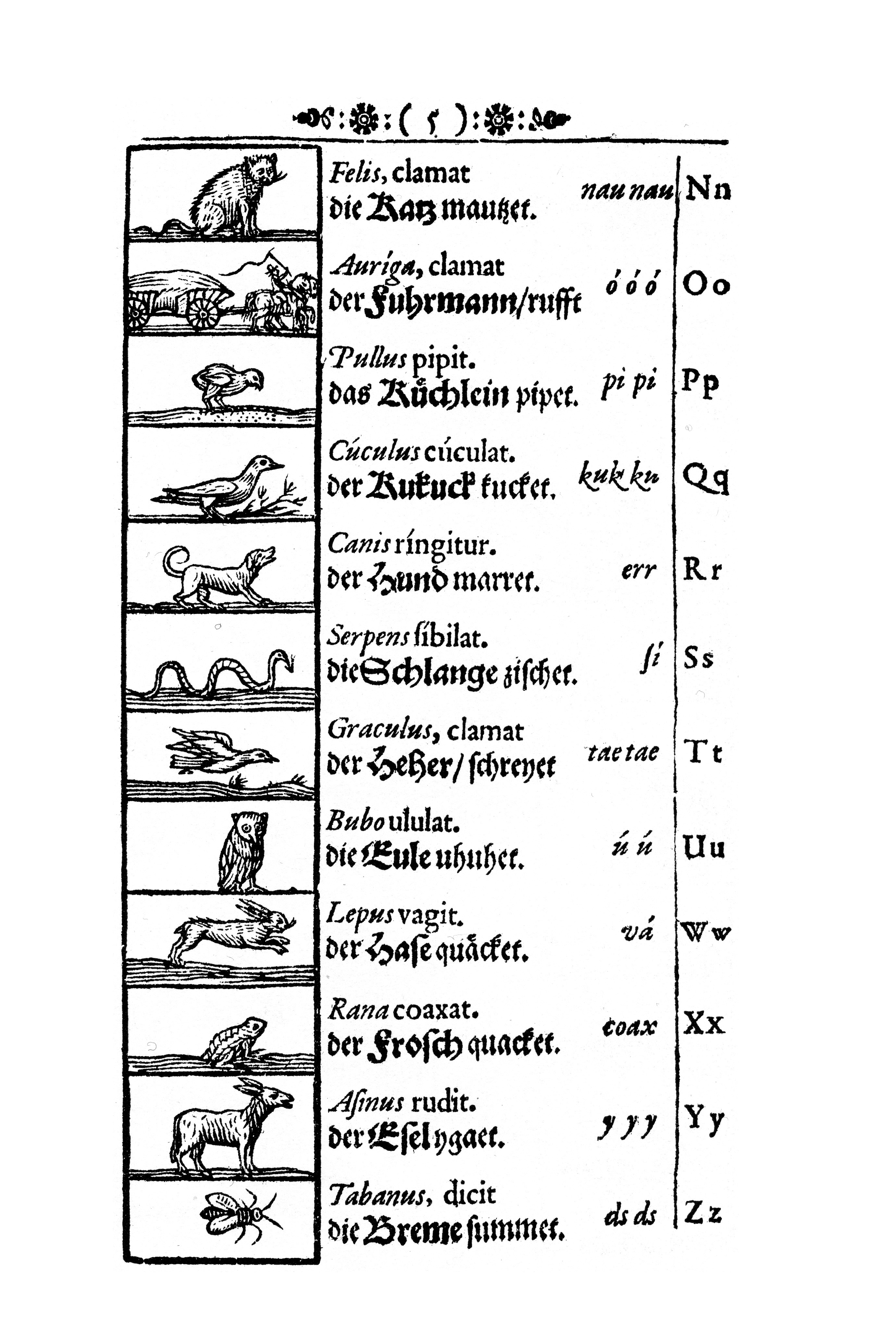 Johann Amos Comenius: Initial sound table out of Orbis sensualium pictus